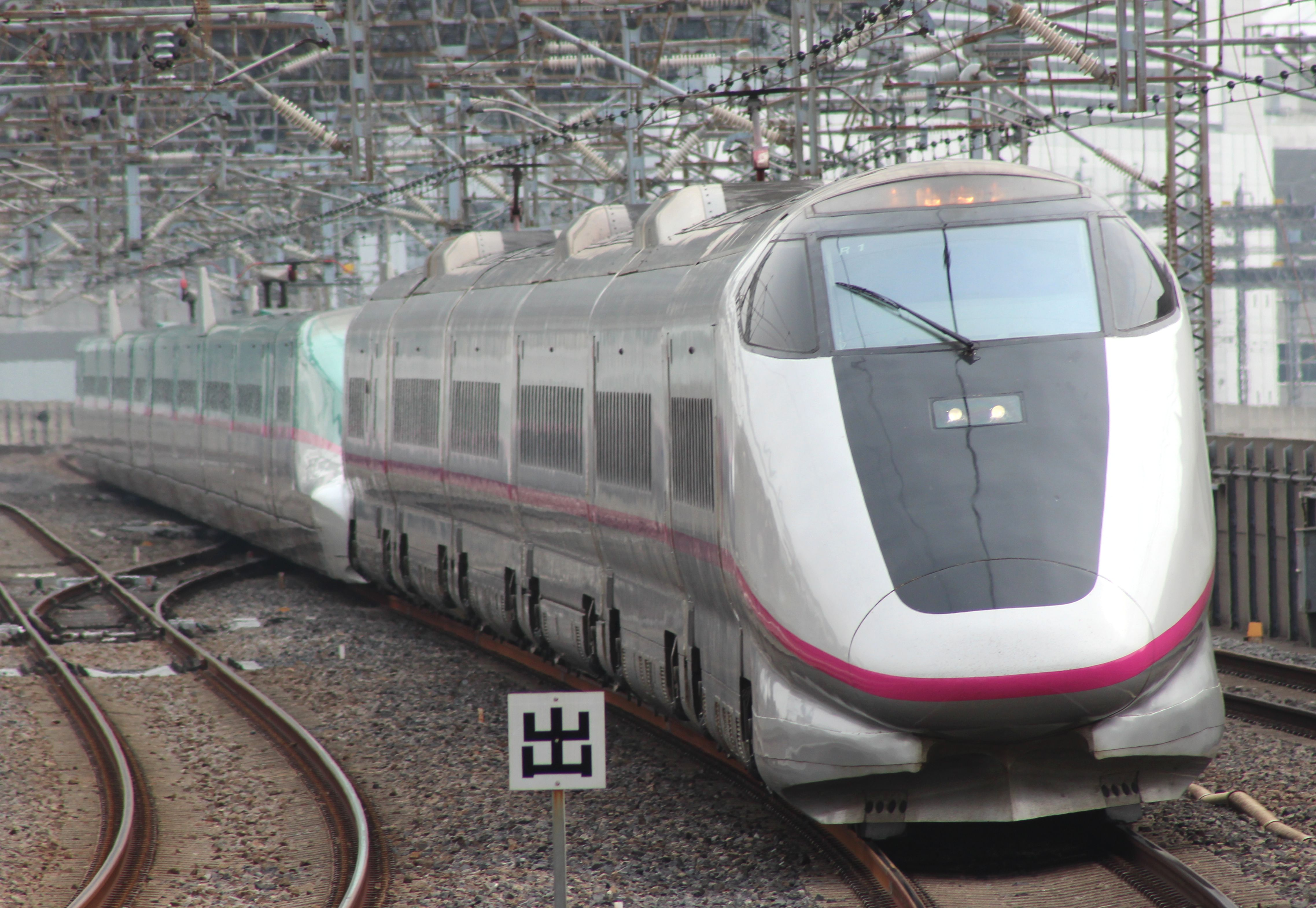 Prototype E3 series shinkansen set R1 coupled to an E5 series set approaching Omiya Station